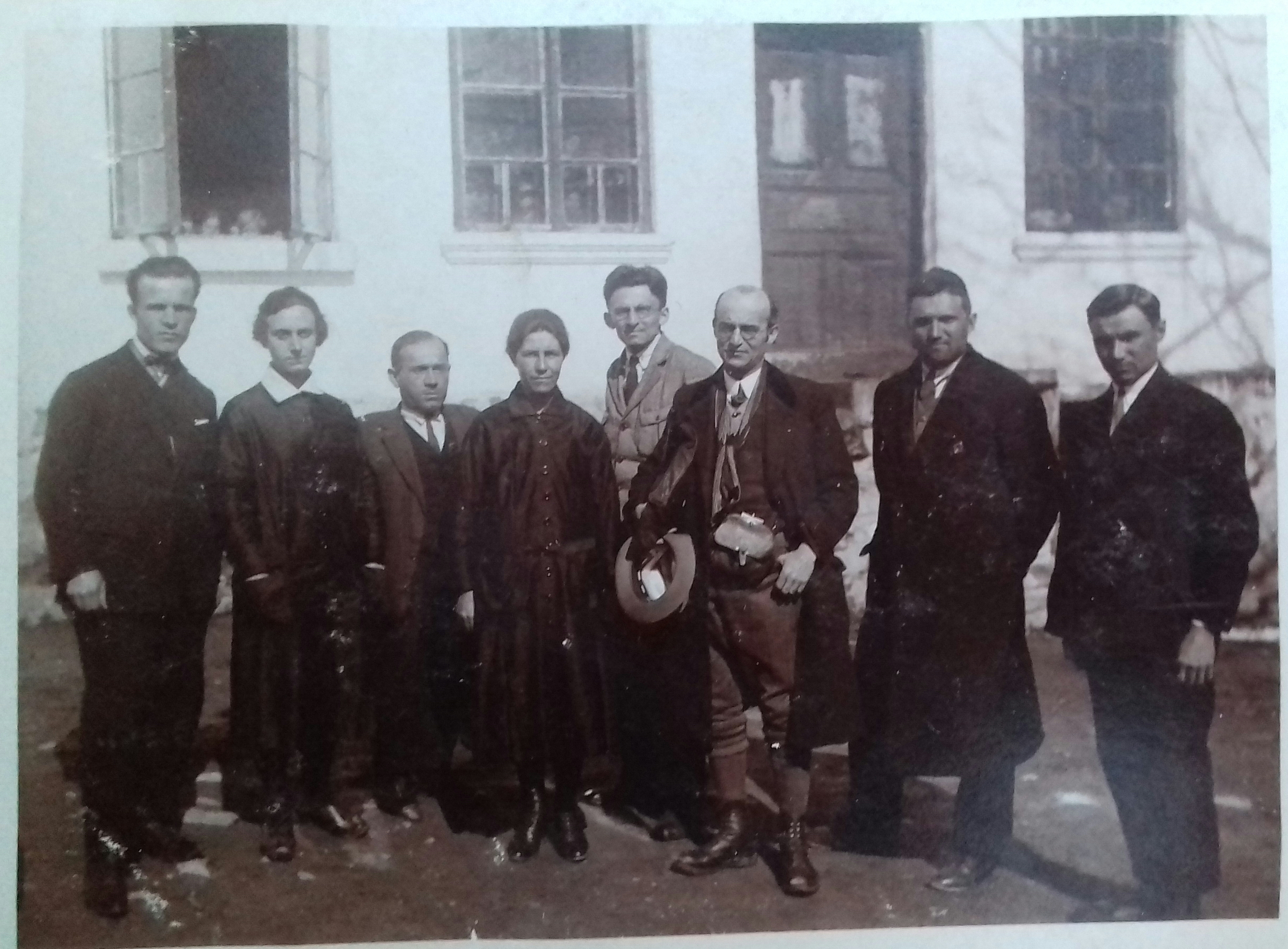 Yosif Cheshmedzhiev in Etara